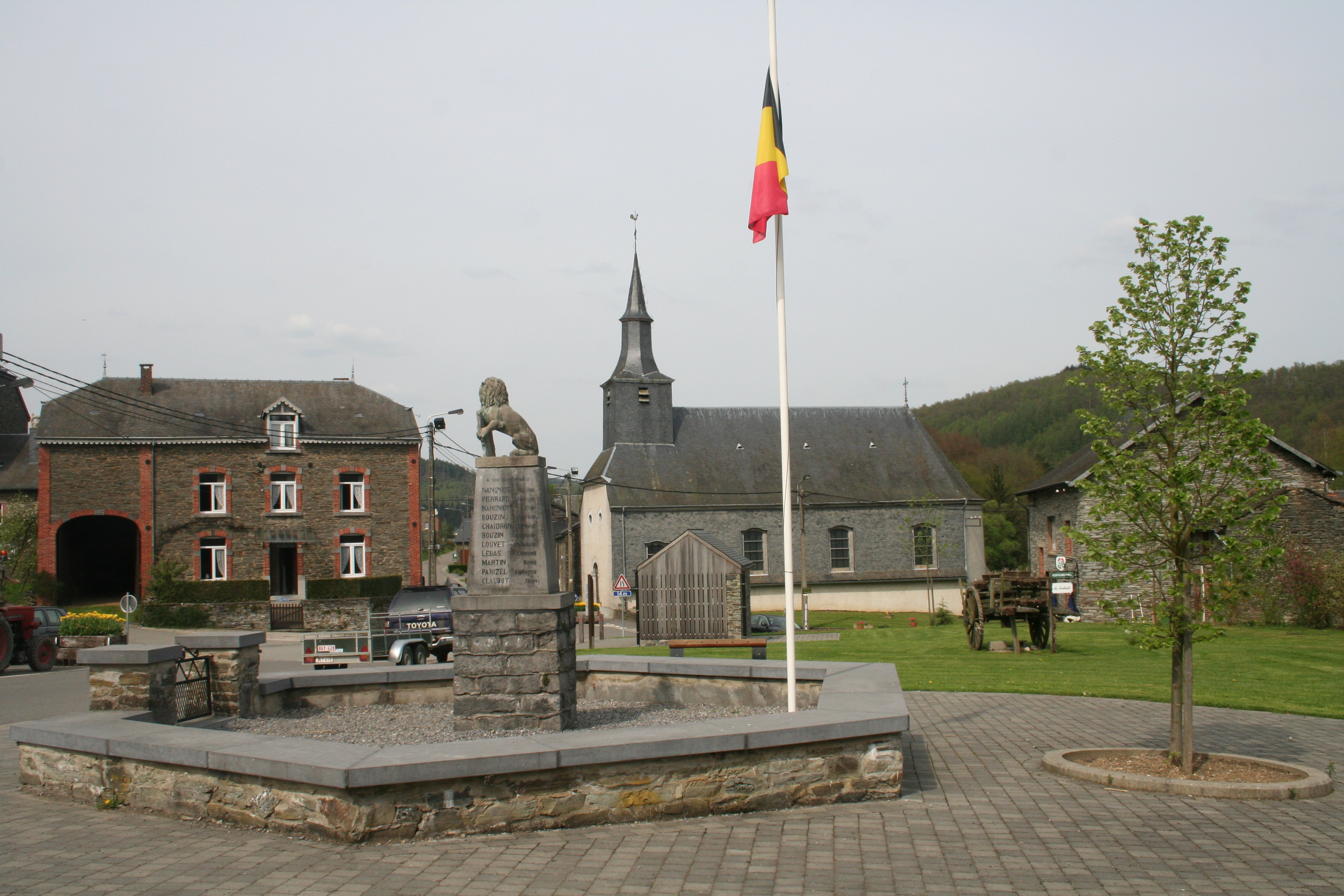 Laforêt (Belgium), the public square of the village.